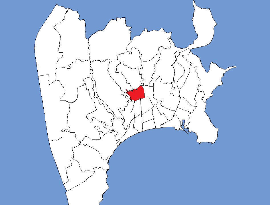 Location of the neighbourhood Mantega in Nice